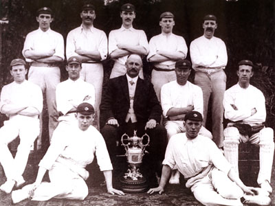 The players of Colne Cricket Club after winning the Lancashire League in 1910 Public domain through age